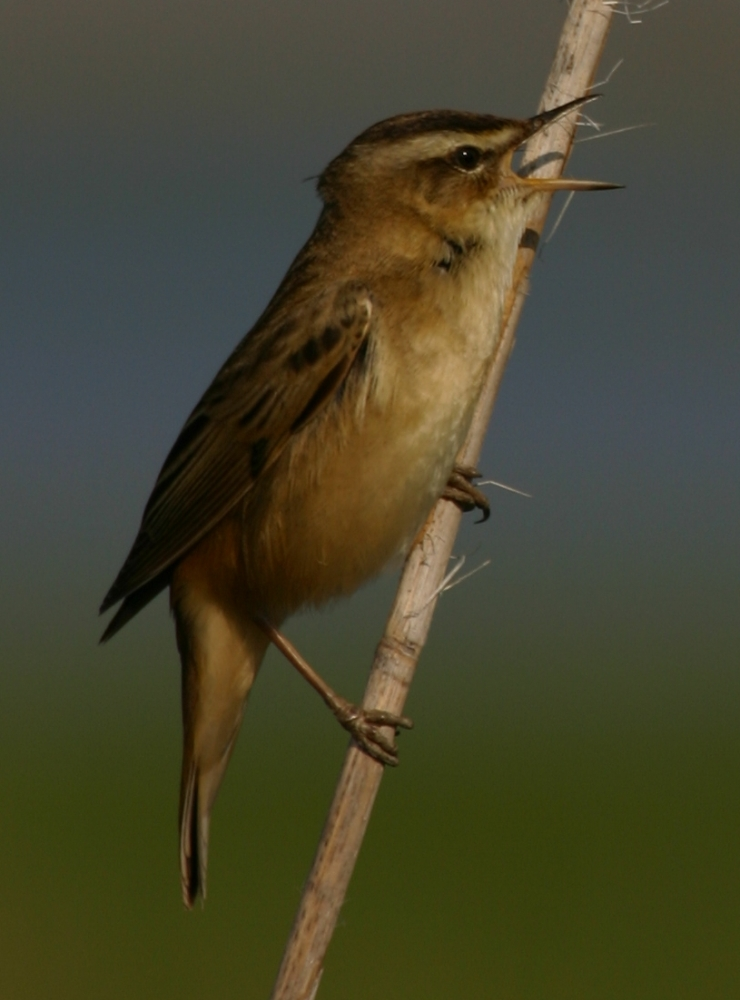 Sedge warbler (Acrocephalus schoenobaenus), Mekszikópuszta, Hungary